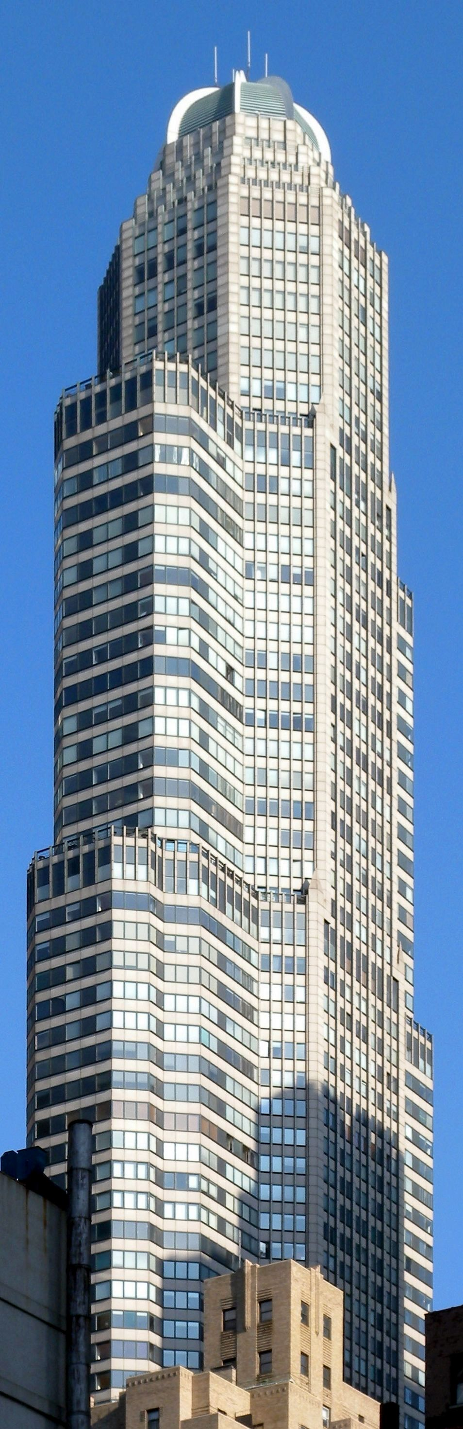 Looking east from 54th Street at CitySpire Center on a sunny November afternoon. EXIF says September due to photographer's error in camera setup.